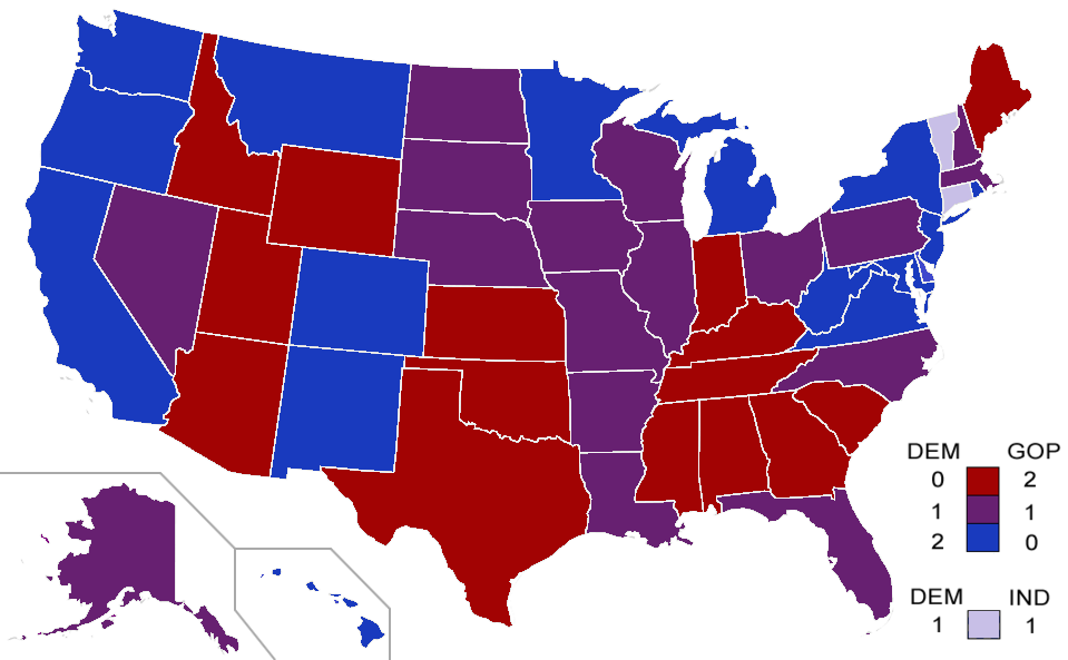 Senate representation in the 112th Congess. Based on :Image:Blank_US_Map.svg. Used the same red/blue/purple color scheme as File:109th_US_Congress_Senate3.PNG, with gray for independent and Democrat representation.